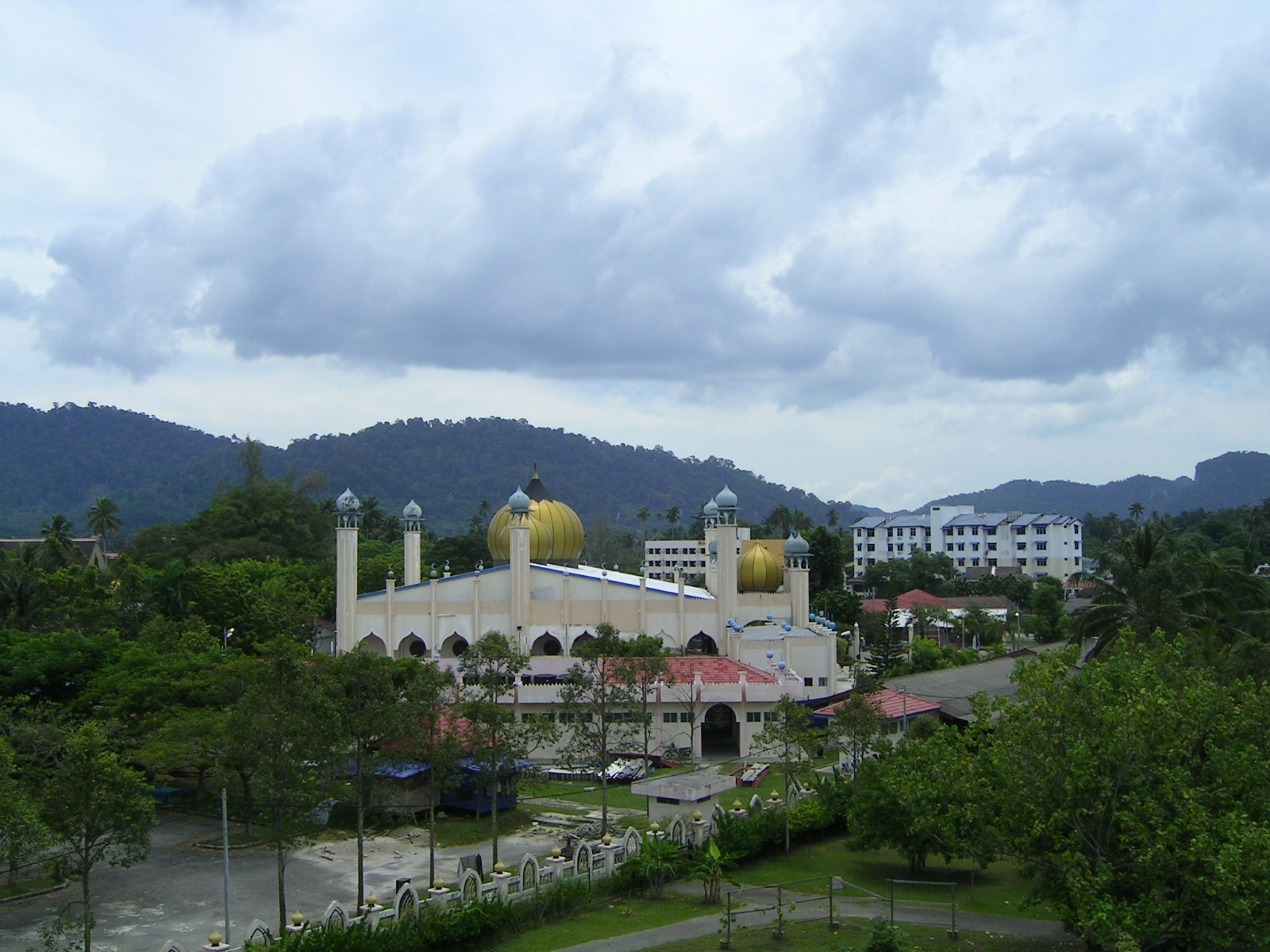 Al-Hana Mosque. Seen in Kuah, Langkawi Island, Malaysia.